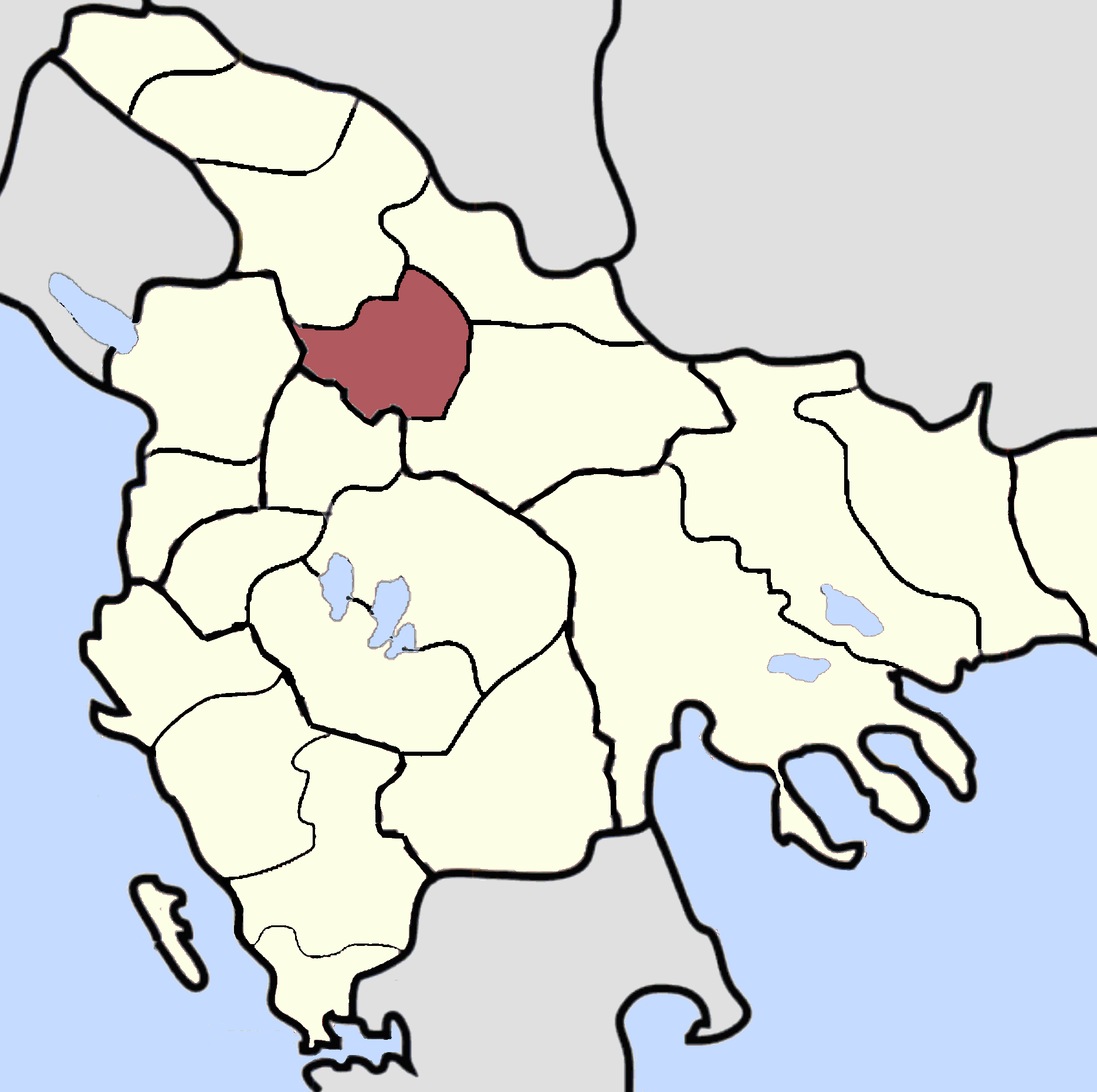 XY Sanjak, Ottoman Empire (late 19th century). Source: The Crescent and the Eagle- Ottoman Rule, Islam and the Albanians, 1874-1913 at Google Books By George Gawrych